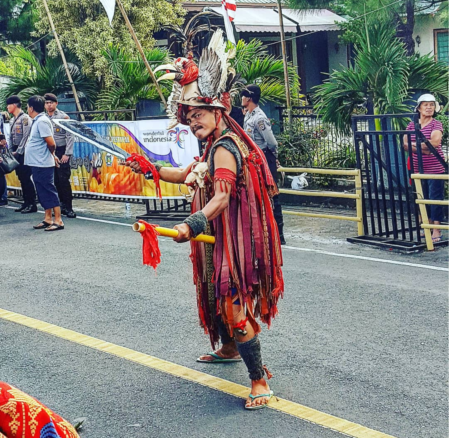 Picture taken during Tomohon Flower Festival 2019